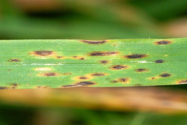 Cochliobolus sativus from Commanster, Belgium. If you think this is a different taxon, please contact James Lindsey.